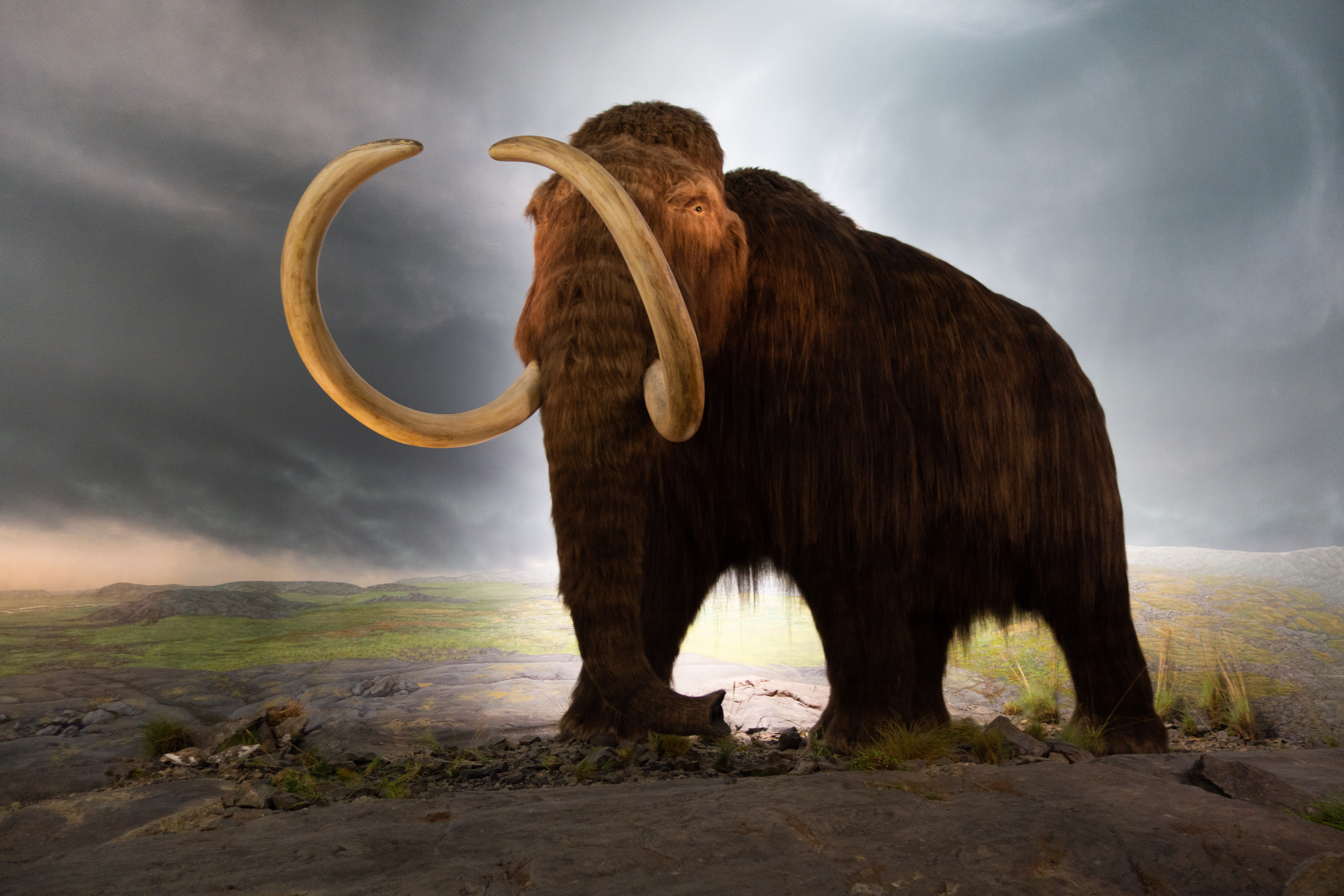 Royal Victoria Museum, Victoria, British Columbia, Canada, 2018